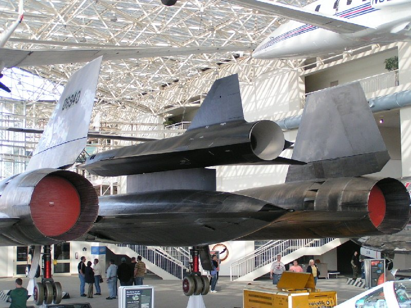 Rear of Lockheed M-21 with Lockheed D-21B drone mounted above Displayed in Museum of Flight in Seattle, Washington